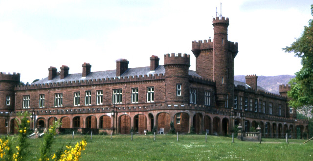 Kinloch Castle, Rhum/Rum, Small Isles, Highland, Scotland